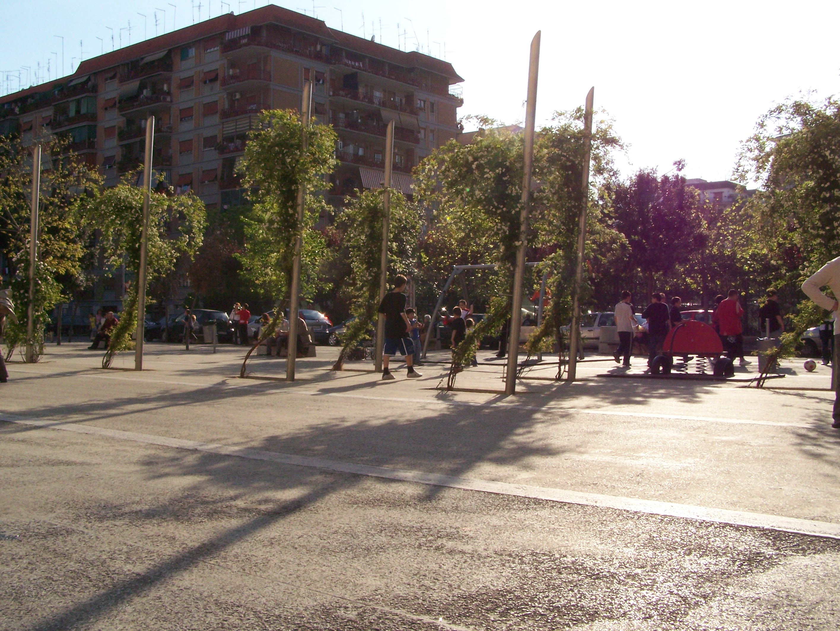 Piazza Fabrizio De Andre and apartment building, Madeline Giscombe